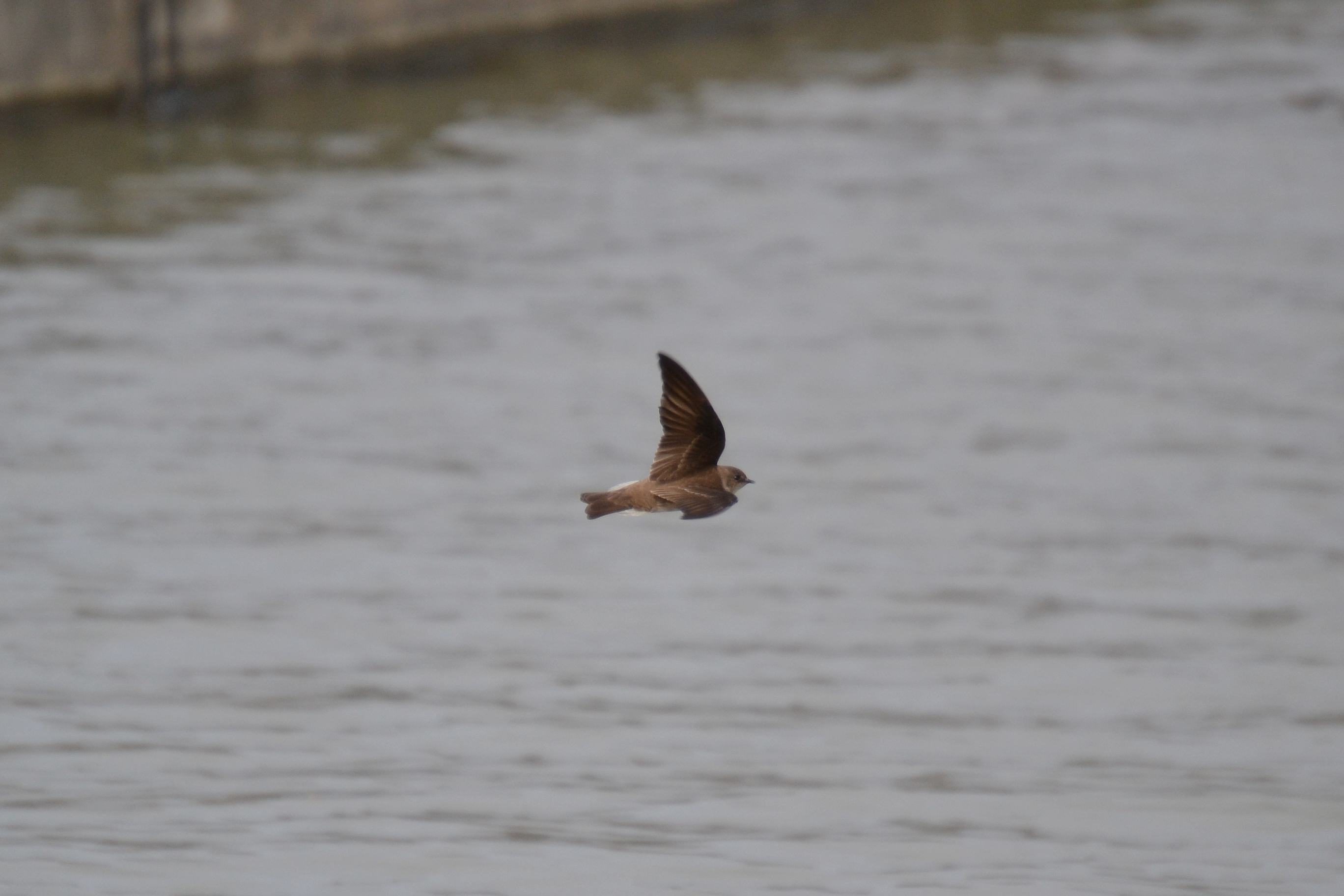 Hueston Woods State Park, College Corner, Ohio